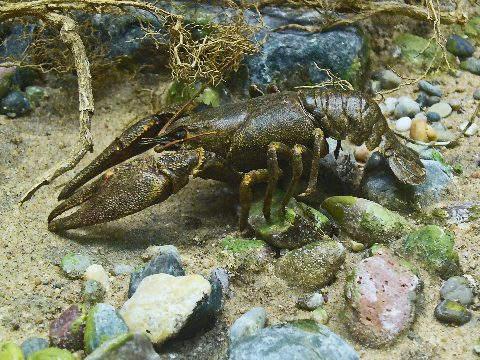 Astacus astacus, Astacidae, European crayfish, noble crayfish, broad-fingered crayfish; Staatliches Museum für Naturkunde Karlsruhe, Germany. The animal used in homeopathy as remedy: Cancer fluviatlis (Astac.)